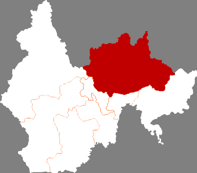 Location of Wangqing county in Yanbian Korean Autonomous Prefecture, China